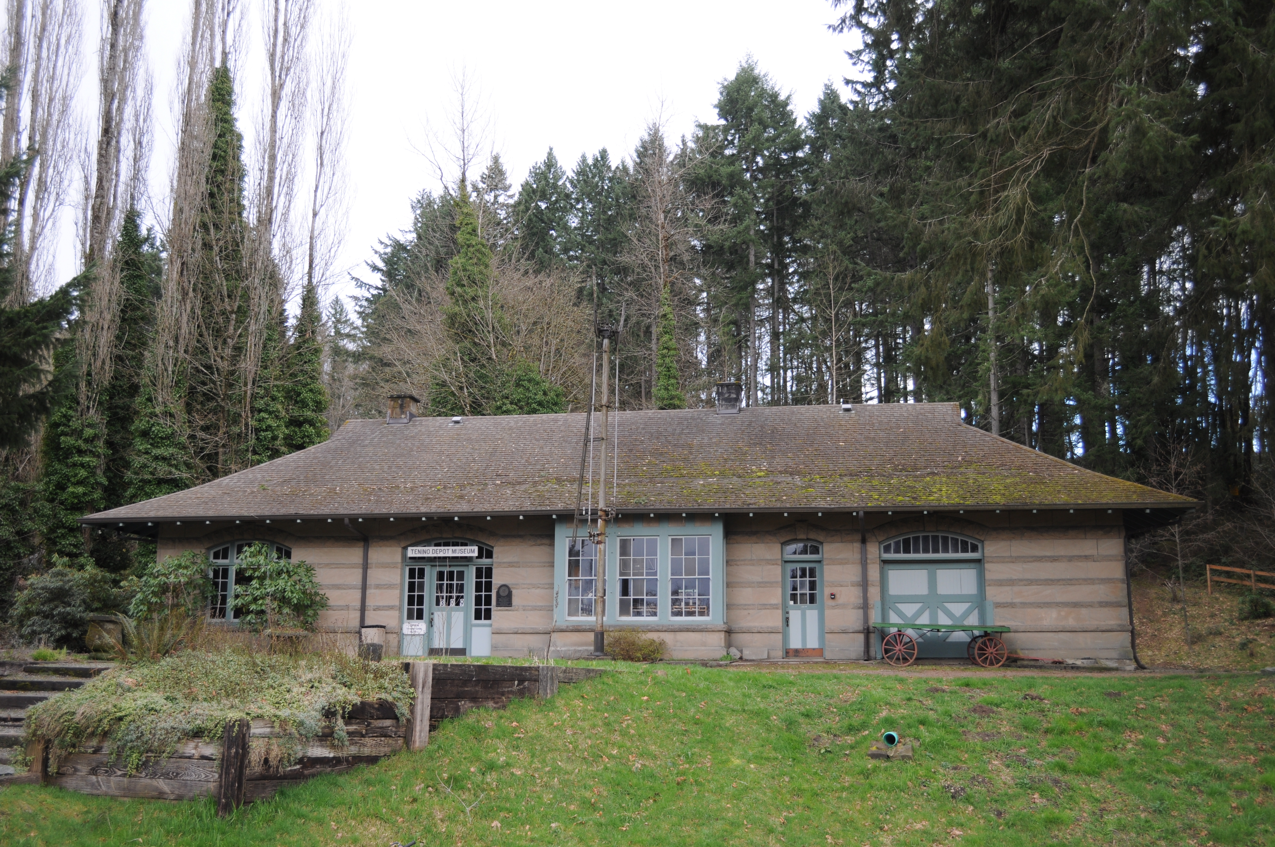 Tenino Depot Museum, Tenino, Washington.